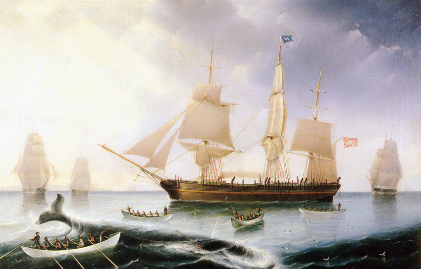 The whaling fleet from Bremen, Germany, around 1840 with a ship of D. H. Wätjen & Co. in the foreground.